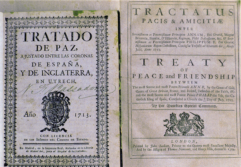 A first edition of the Treaty of Utrecht, 1713, in Spanish (left), and a copy printed in 1714 in Latin and English (right).